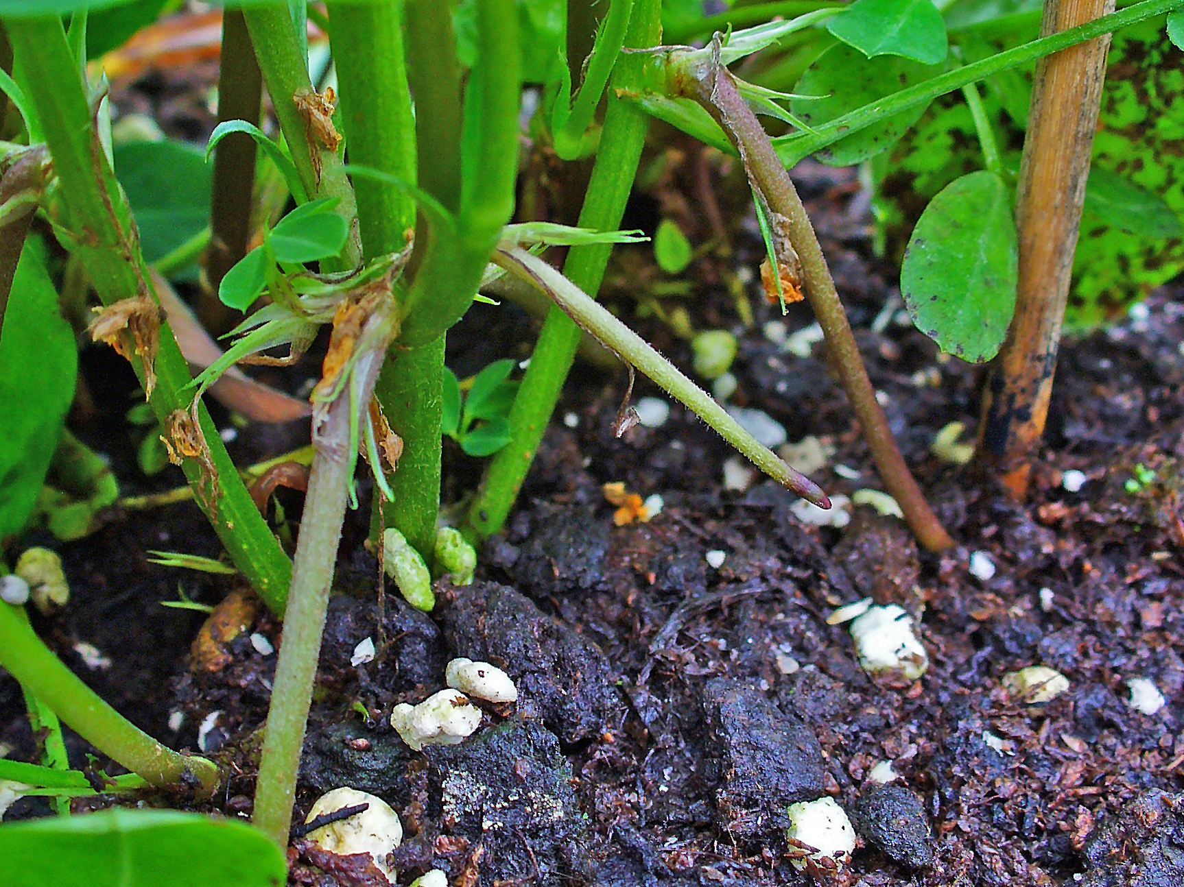 Arachis hypogaea, Fabaceae, Peanut, Groundnut, growing fruit stalk; Botanical Garden KIT, Karlsruhe, Germany. The dried fruits are used in homeopathy as remedy: Arachis hypogaea (Ara-h.)